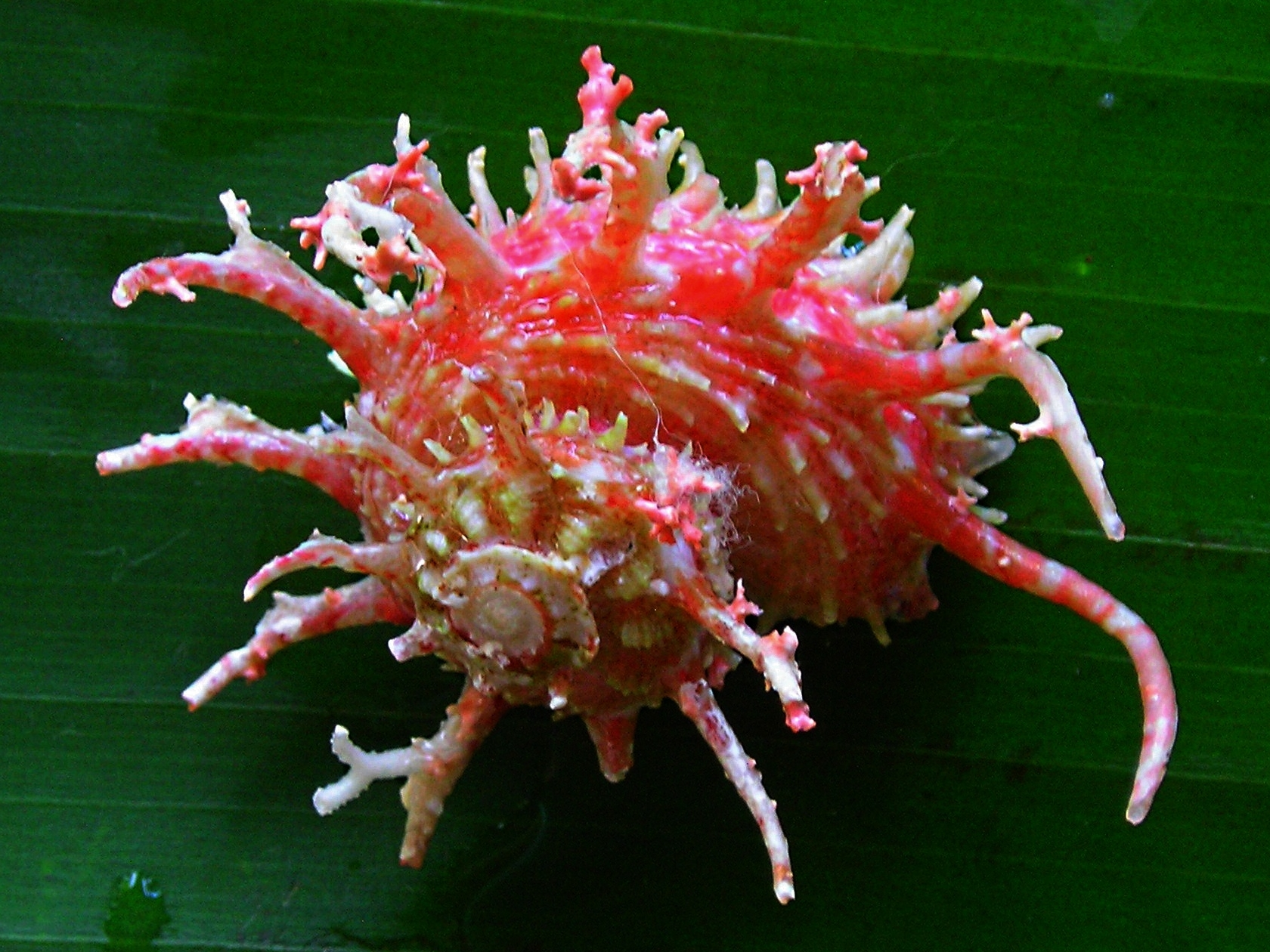 Photo of the shell of Victor Dan's Delphinula Angaria vicdani.